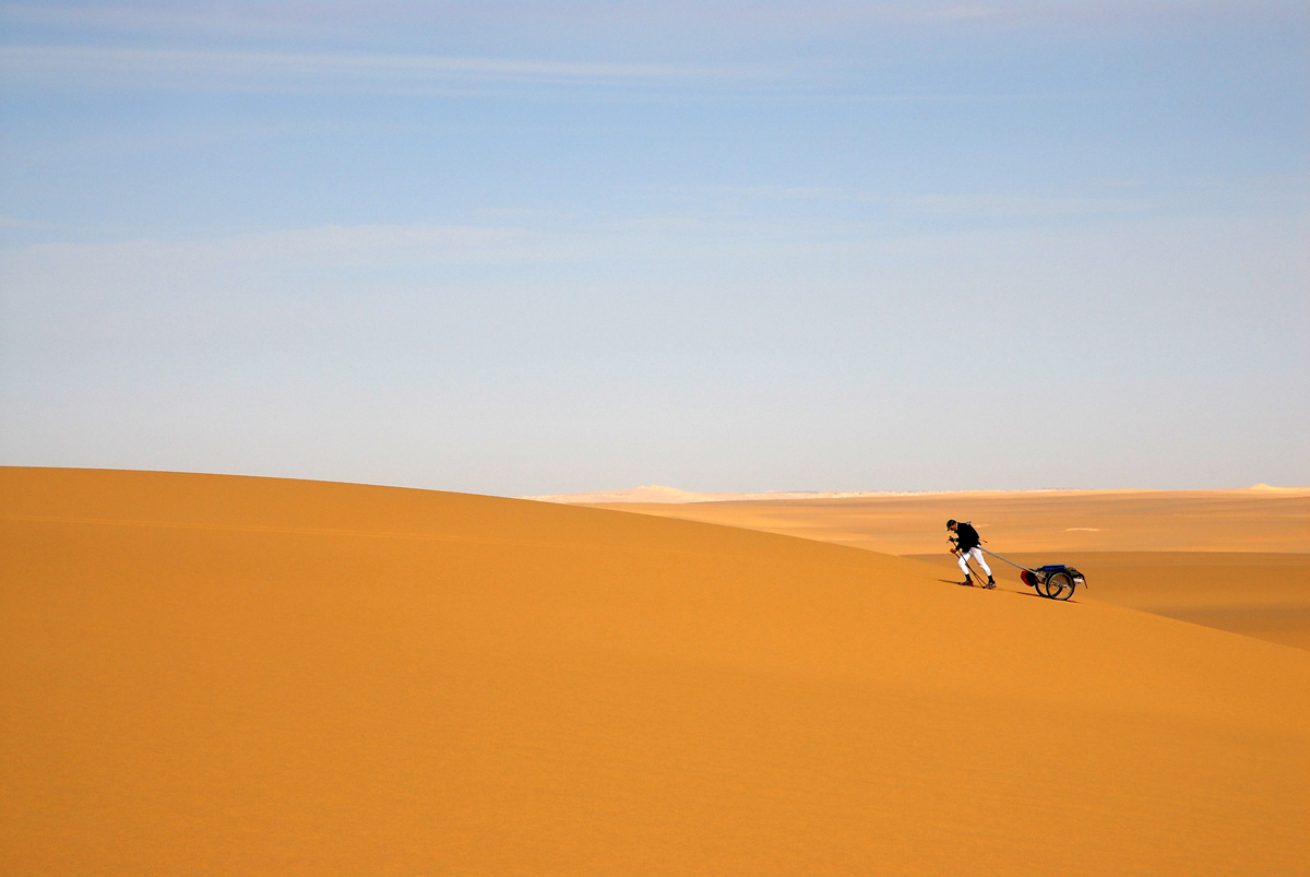 Stefano Miglietti, during the crossing of Great Sand Sea desert in self-sufficiency, Egypt 2006